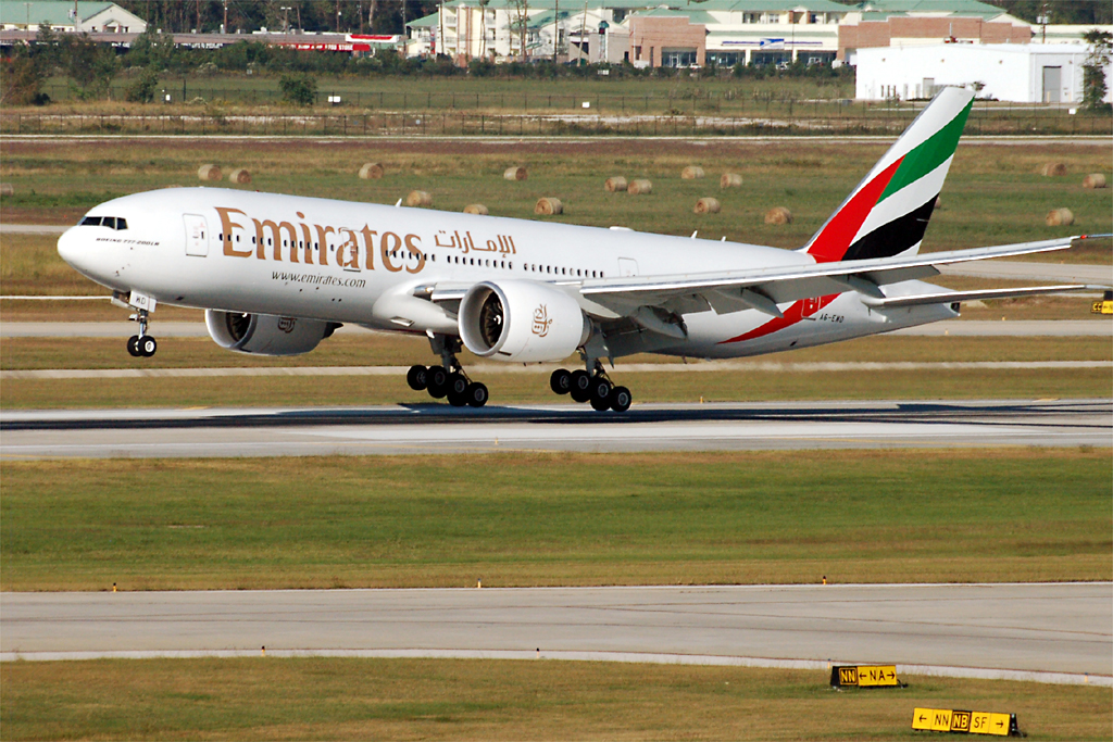 Emirates Boeing 777-200LR (A6-EWD) landing at George Bush Intercontinental Airport in Houston